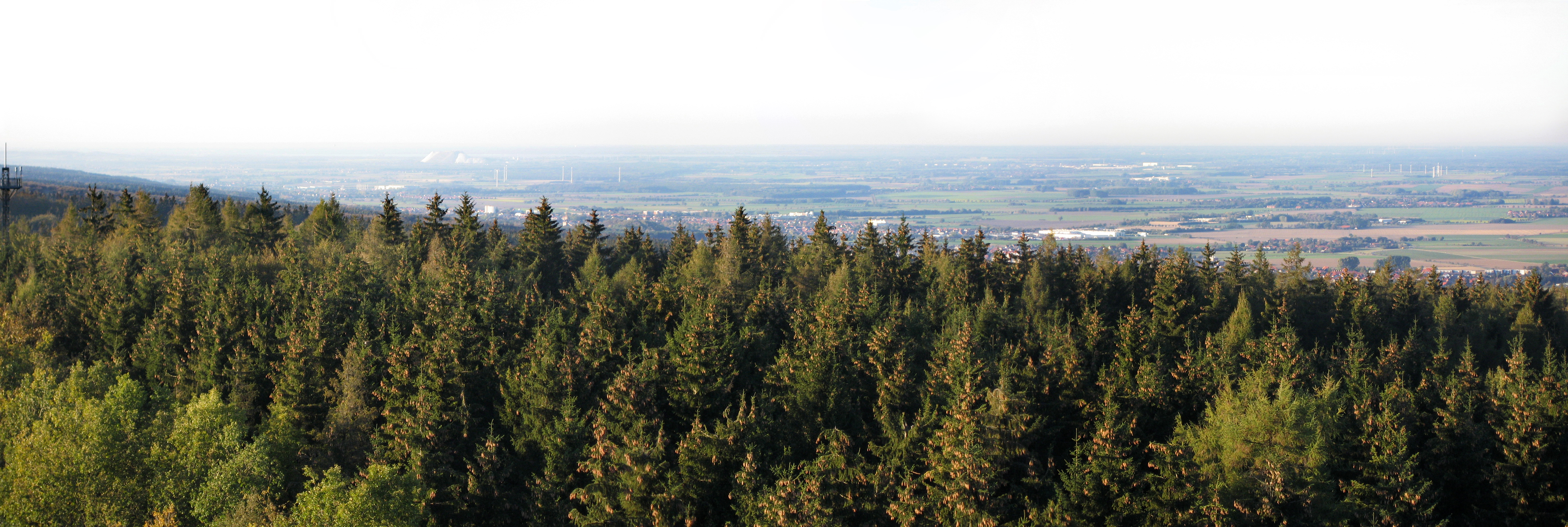 View from observation tower "Annaturm", Viewing direction NNW